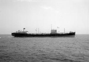 RFA EAGLESDALE underway